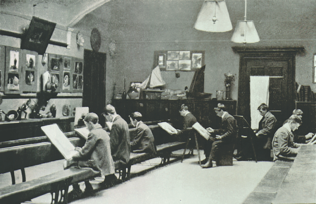 Photograph of the Art Room of the Royal High School at Regent Road, Edinburgh.